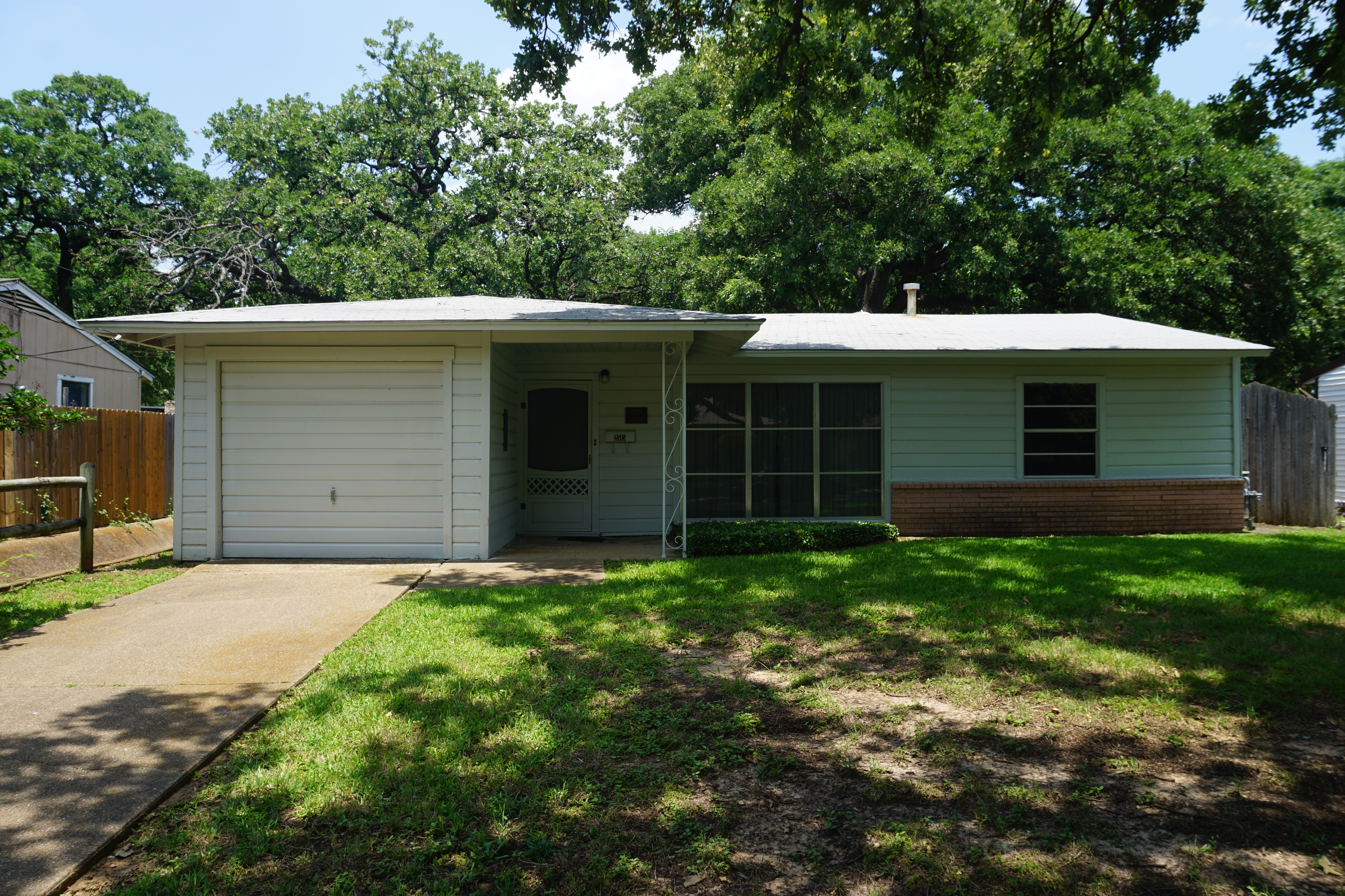 The Ruth Paine Home in Irving, Texas (United States).